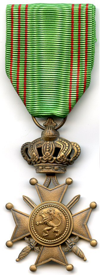 Post 1954 War Cross - Kingdom of Belgium